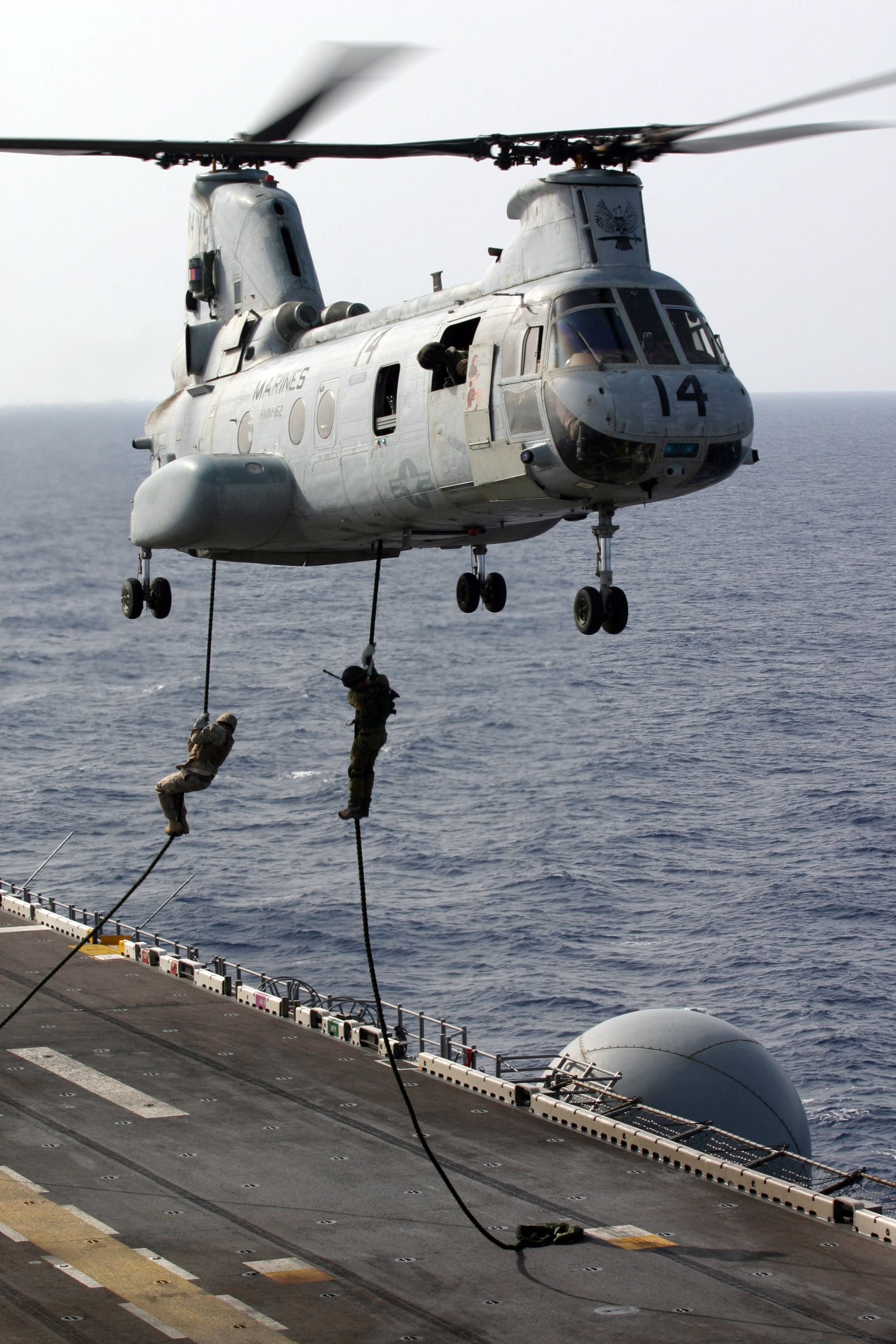 Mediterranean Sea (April 15, 2005) - Marines assigned to the 26th Marine Expeditionary Unit (Special Operations Capable) along with Israeli Defense Force soldiers fast rope from a CH-46E Sea Knight helicopter onto the flight deck of amphibious assault ship USS Kearsarge (LHD-3). Marines assigned to the MEU trained with the Israeli soldiers to keep their skills sharp and to build foreign relationships. Kearsarge and 26th MEU are on deployment in support of the global war on terrorism.